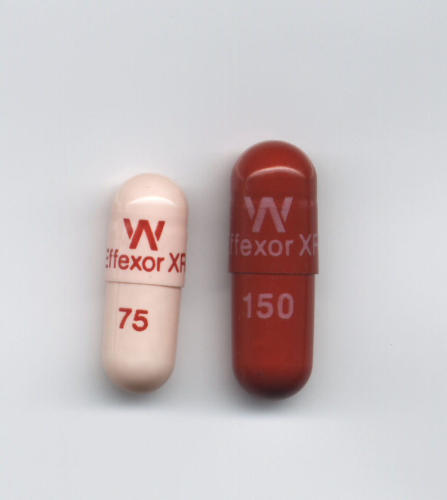 Venlafaxine Extended Release (XR) pills—Effexor® XR 75 mg (left) and Effexor® XR 150 mg (right).